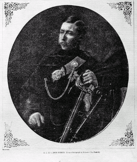 Canadian Illustrated News - H.R.H. Prince Arthur - Arthur William Patrick Albert, Duke of Connaught and Strathearn, Prince, 1850-1942, 30 octobre 1869